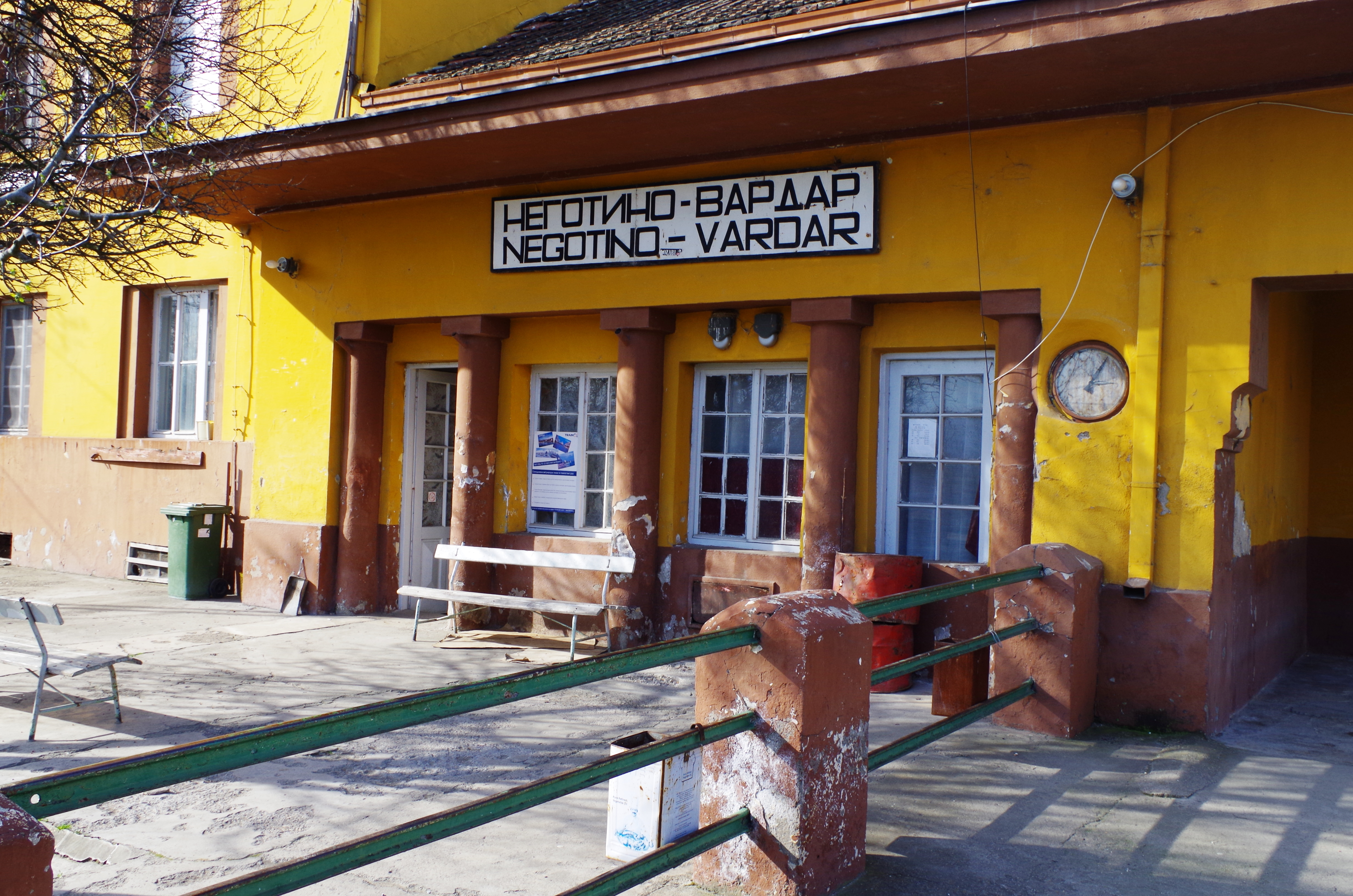 View of the train station Negotino-Vardar